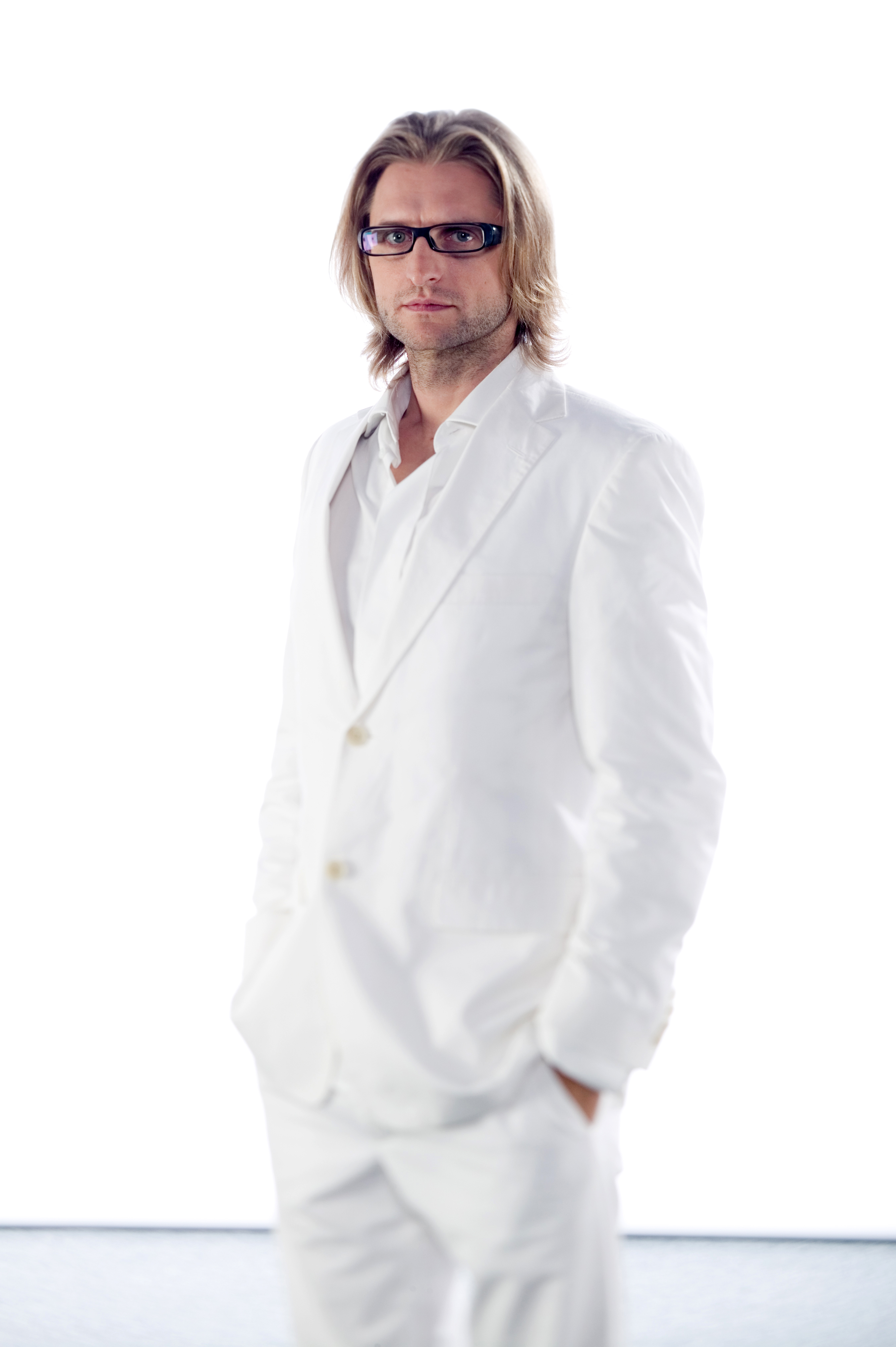 Foto Leszka